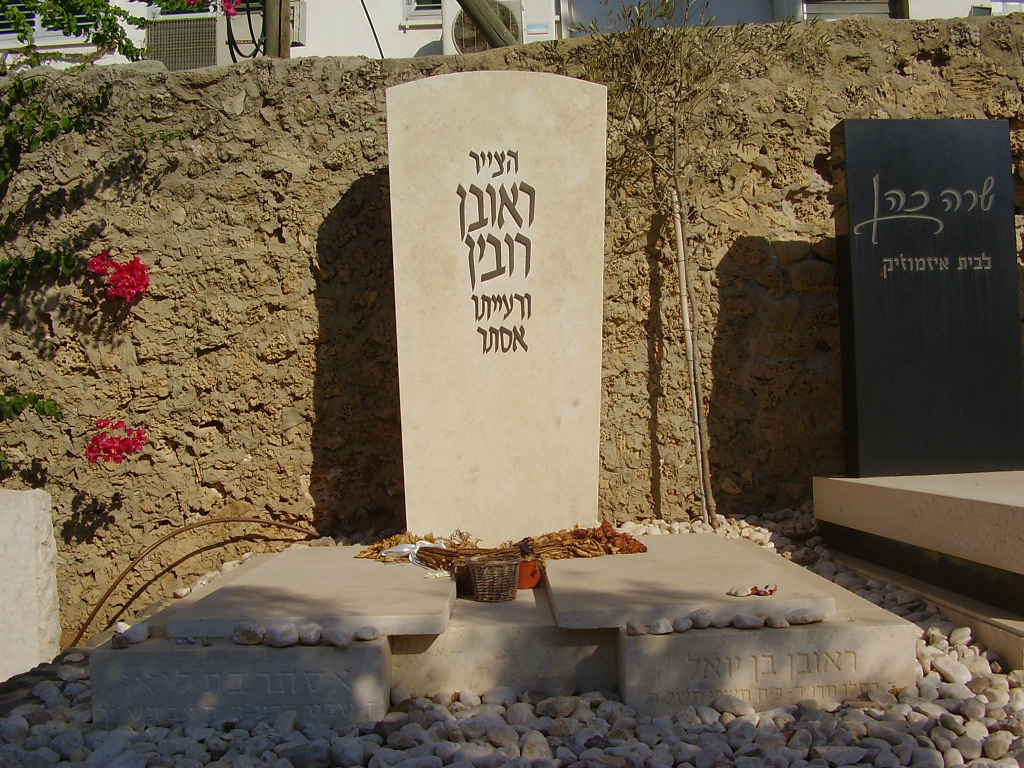 Tomb of painter Reuven Rubin and his wife in Tel Aviv